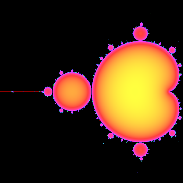 Original description: Just a printscreen from my app to illustrate the math formulas.